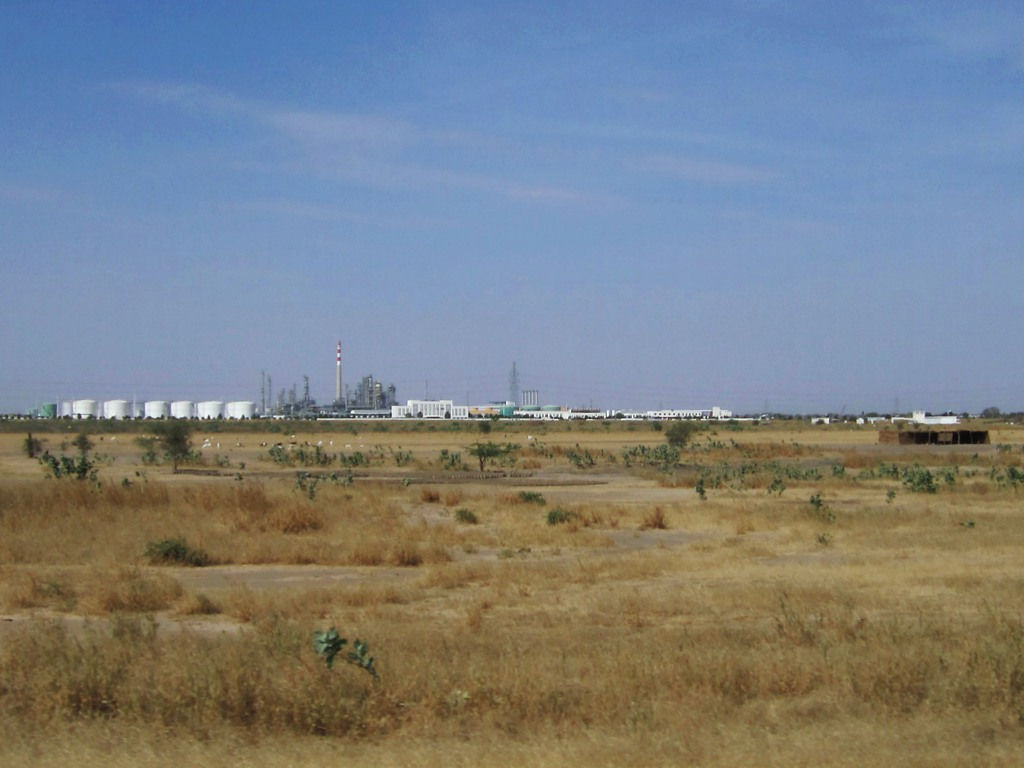 The Chinese-owned Raffinerie de Djermaya, 60 kilometers north of N'Djamena, Chad, refines oil for sale throughout Central Africa.